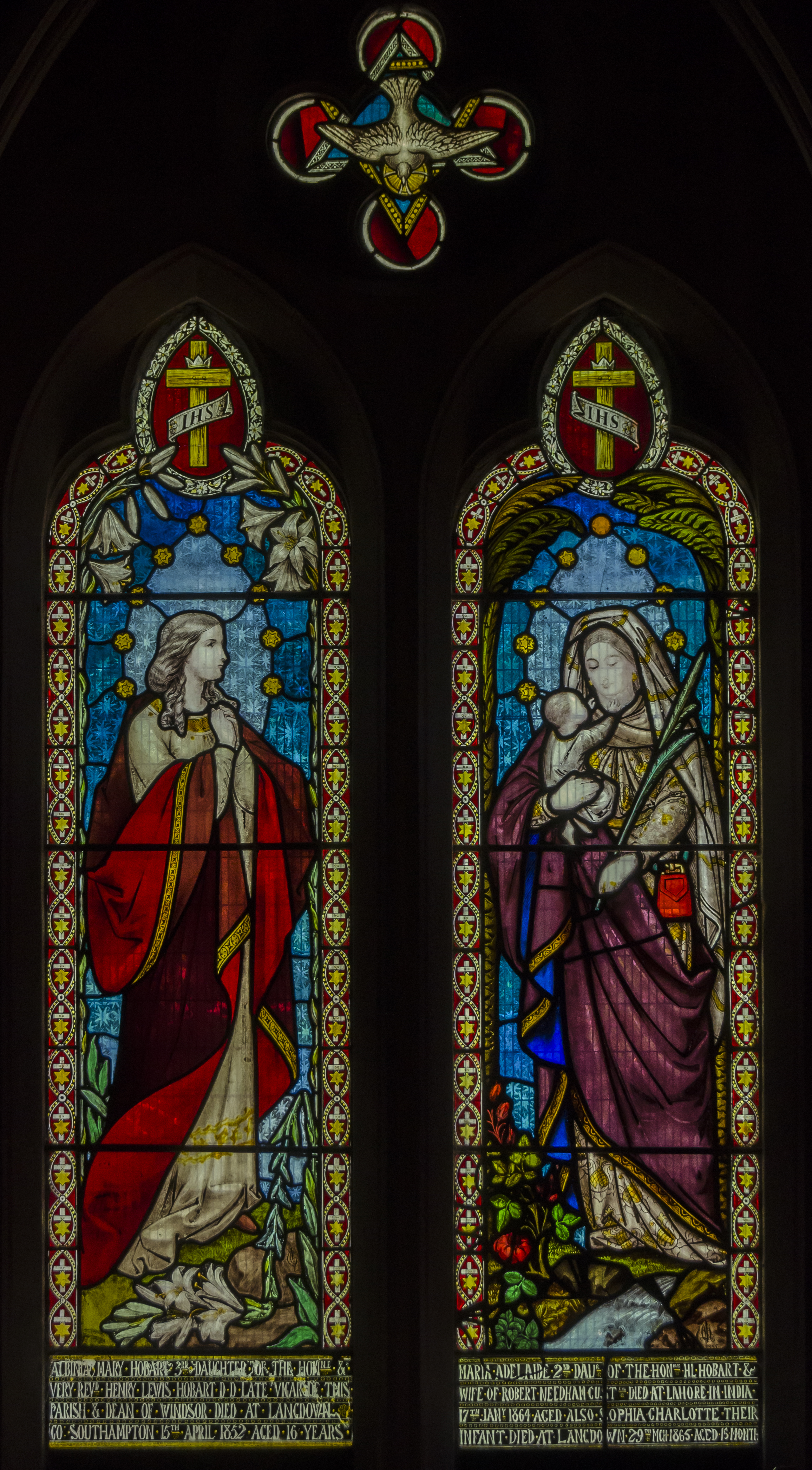 A memorial window designed by Louisa Charlotte Hobart made by Clayton & Bell, 1865. In memory of two daughters and a grand-daughter of Rev H. L. Hobart, Albina Mary who died in 1852 aged 16, and Maria Adelaide (wife of Robert Needham Cust) who died in 1864 aged 30, and her daughter Sophia Charlotte who died aged 15 months in 1865.